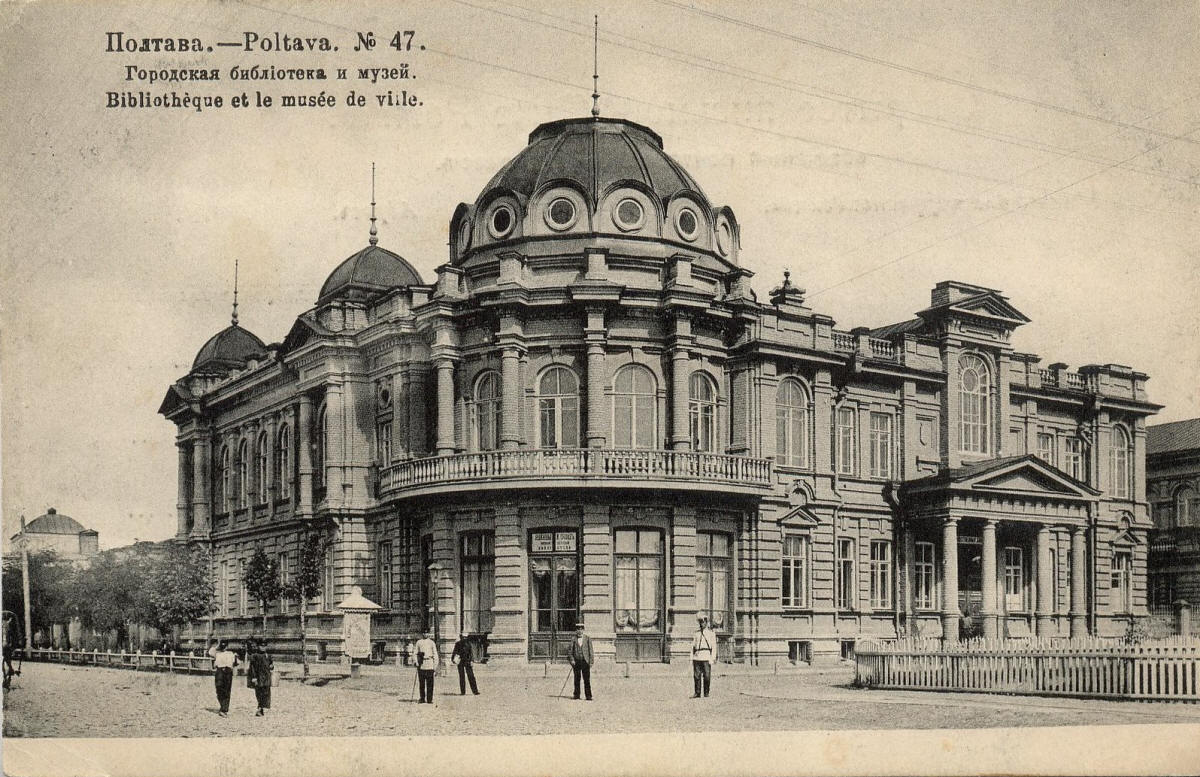 Zemsky Museum in Poltava. Photo of the beginning of the 20th century.